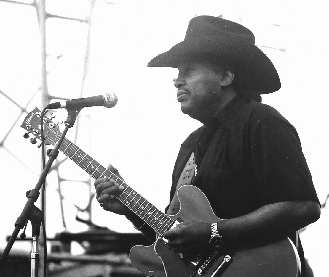 Otis Rush at Long Beach Blues Festival